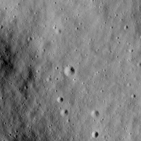 Cinco crater (center), on the moon. Sun elevation 27 deg., spacecraft altitude 114 km.